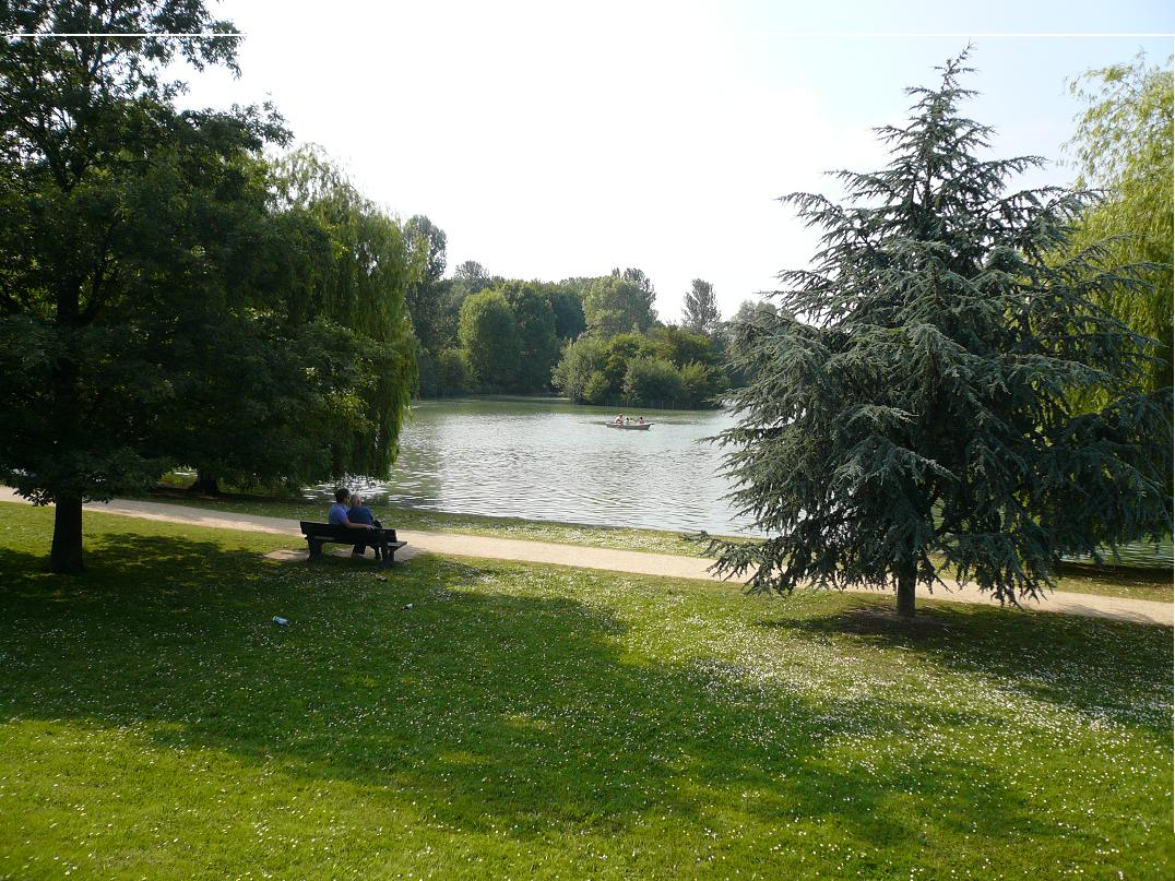 Photograph of Stanborough park (Northern Lake), Welwyn Garden City, Hertfordshire, United Kingdom